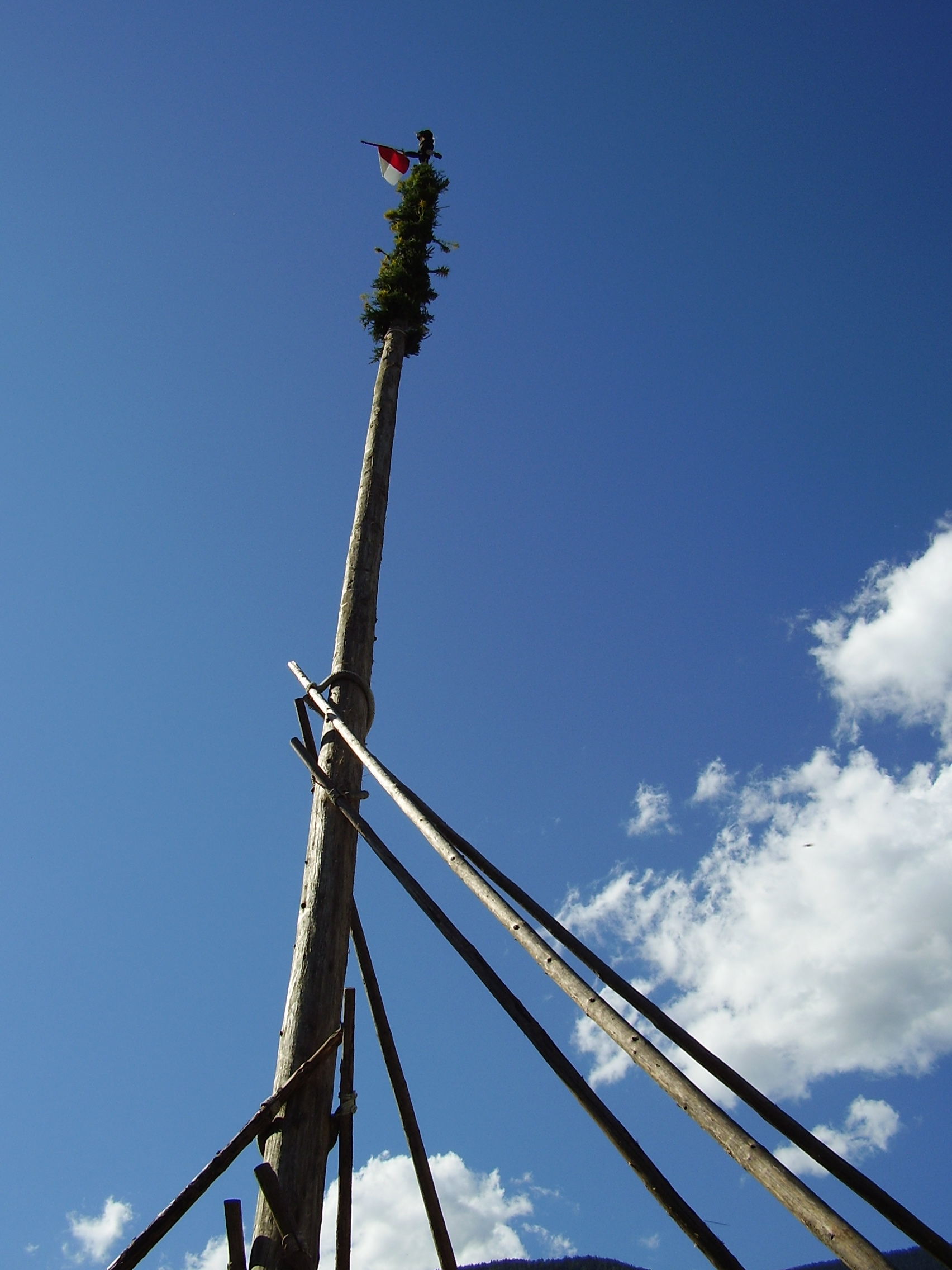 The raising of the "Kirschtamichlbaum" in St. Georgen (Bruneck, South-Tyrol, Italy)